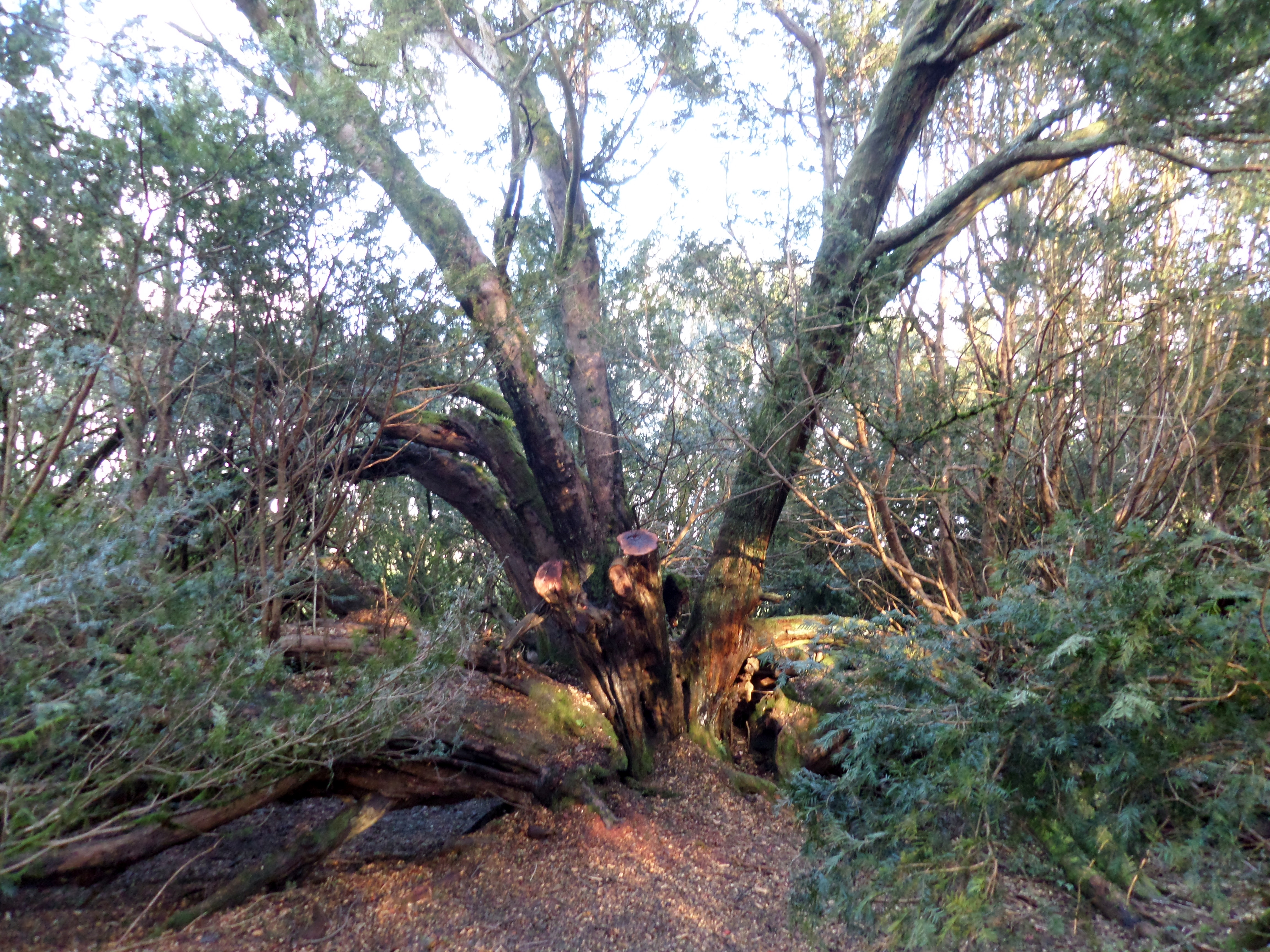 Craigends Yew grove, Houston, Renfrewshire - the main tree bole of this circa 600 year old layering tree.